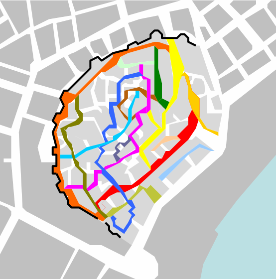 Streets in Old City (Baku, Azerbaijan)